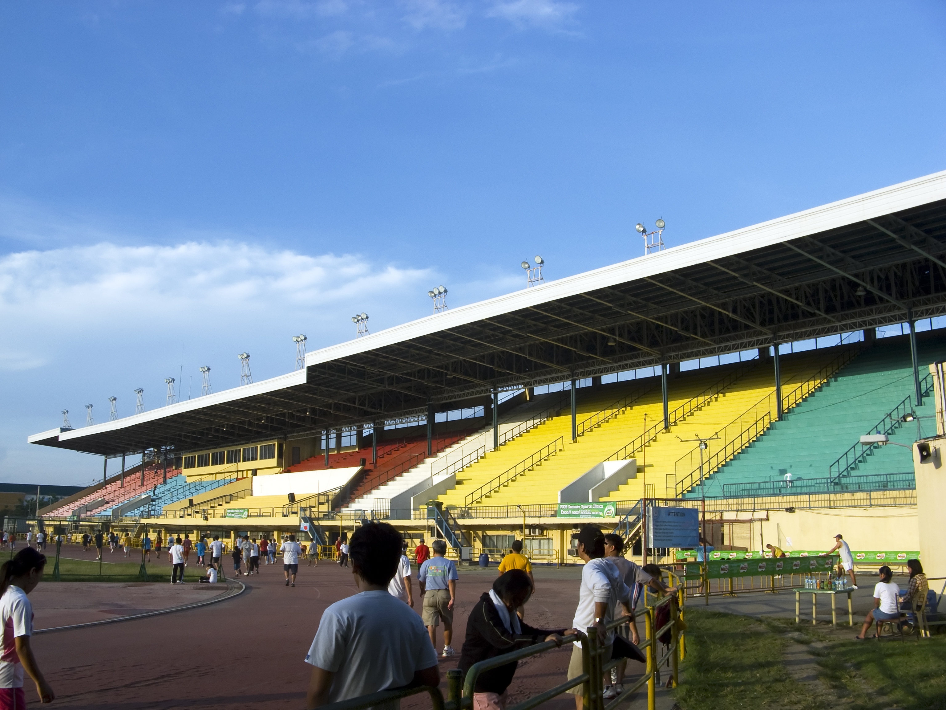 Cebu Sports Complex in April 2009